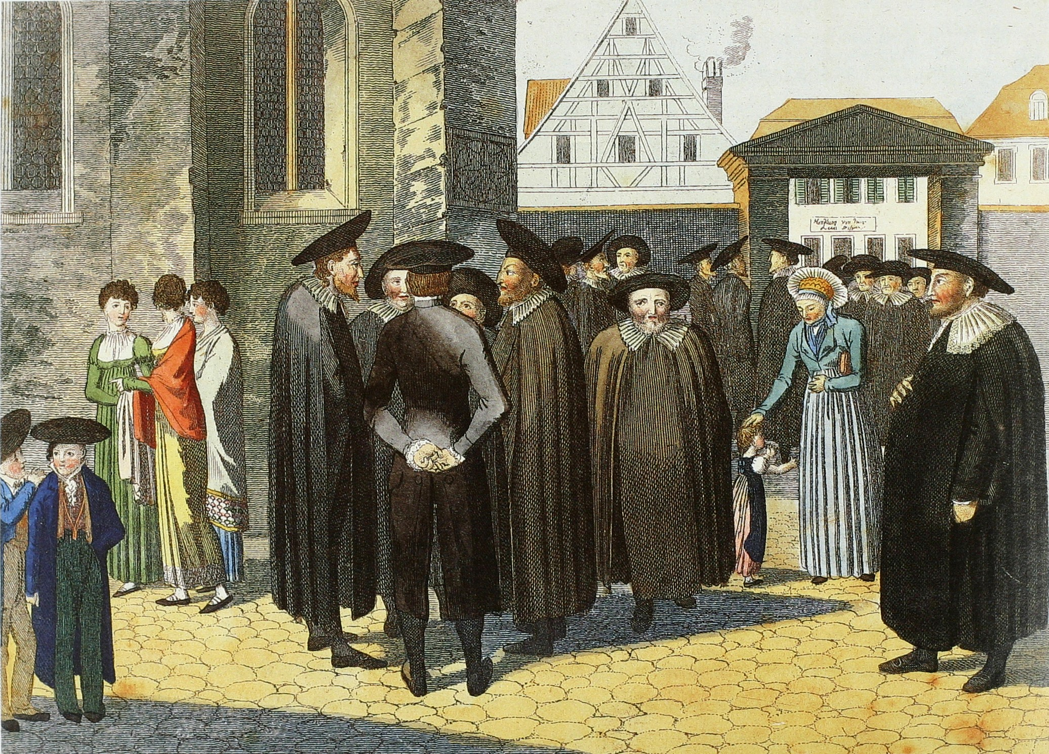 Jews gathered outside a synagogue in Fürth, Bavaria, on the Sabbath. The men are wearing flat, round hats called baretta. The eight-pointed star on the corner of the synagogue is a traustein.